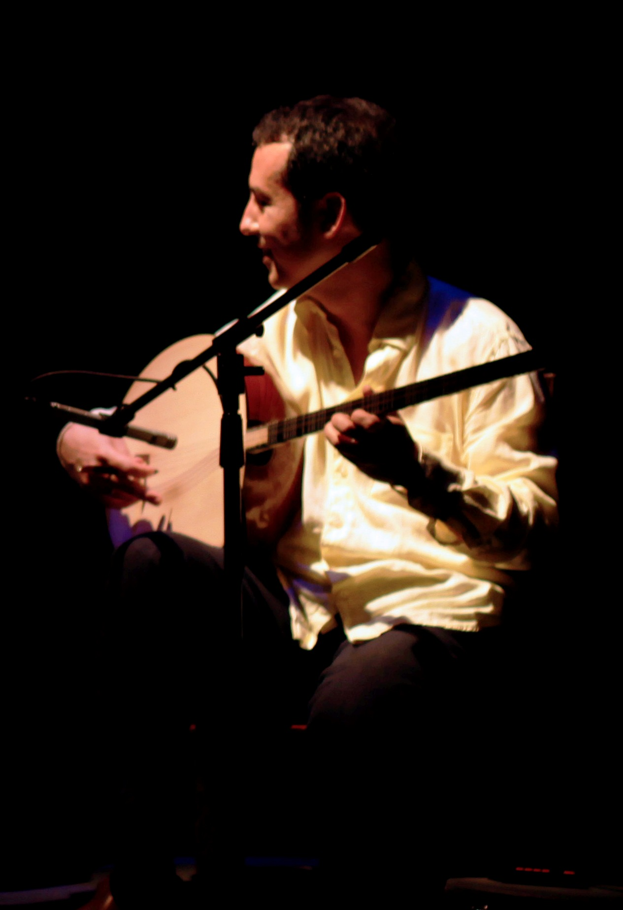 The Turkish tambur player Murat Aydemir of the band Incesaz.